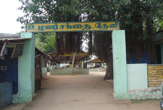 Uzhavar Sandhai entrance at Theni, Tamil Nadu, India